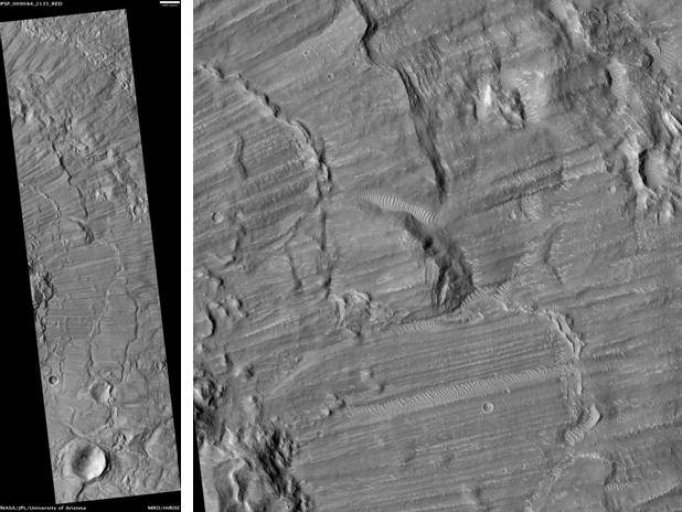 Bacolor Crater Ejecta, as seen by hirise. Location is 33.1 North and 118.9 East. Scale bar is 1000 meters long. Image was taken by the Mars Reconnaissance Orbiter's HiRISE. The HiRISE camera was built by Ball Aerospace and Technology Corporation and is operated by the University of Arizona. Image courtesy NASA/JPL/University of Arizona.